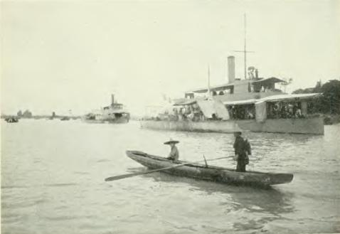 An American gunboat followed by a British one in Canton during the Xinhai Revolution, 1911-1912.